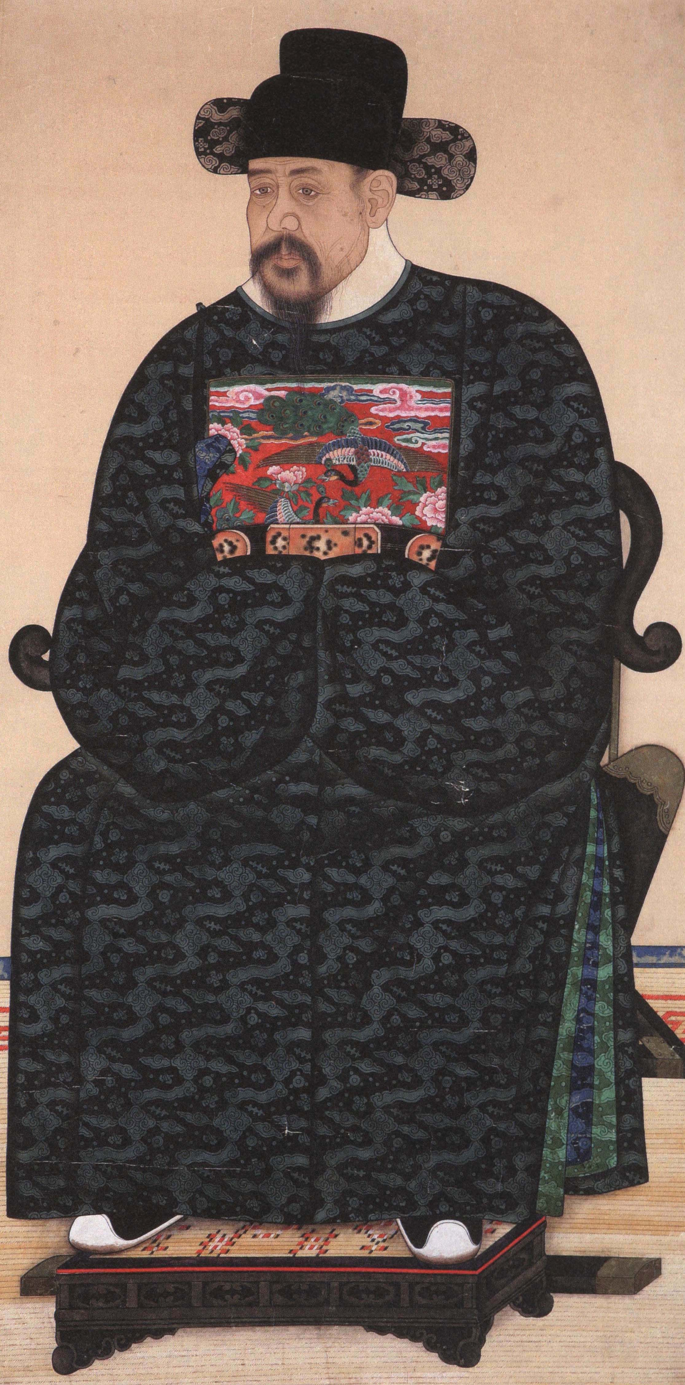 Yi San-hae